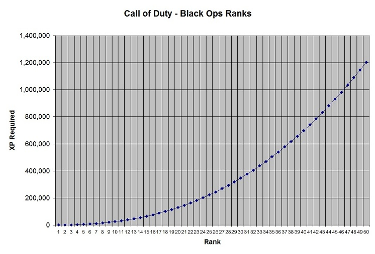 The amount of XP (experience points) needed to rank up in Call of Duty: Black Ops